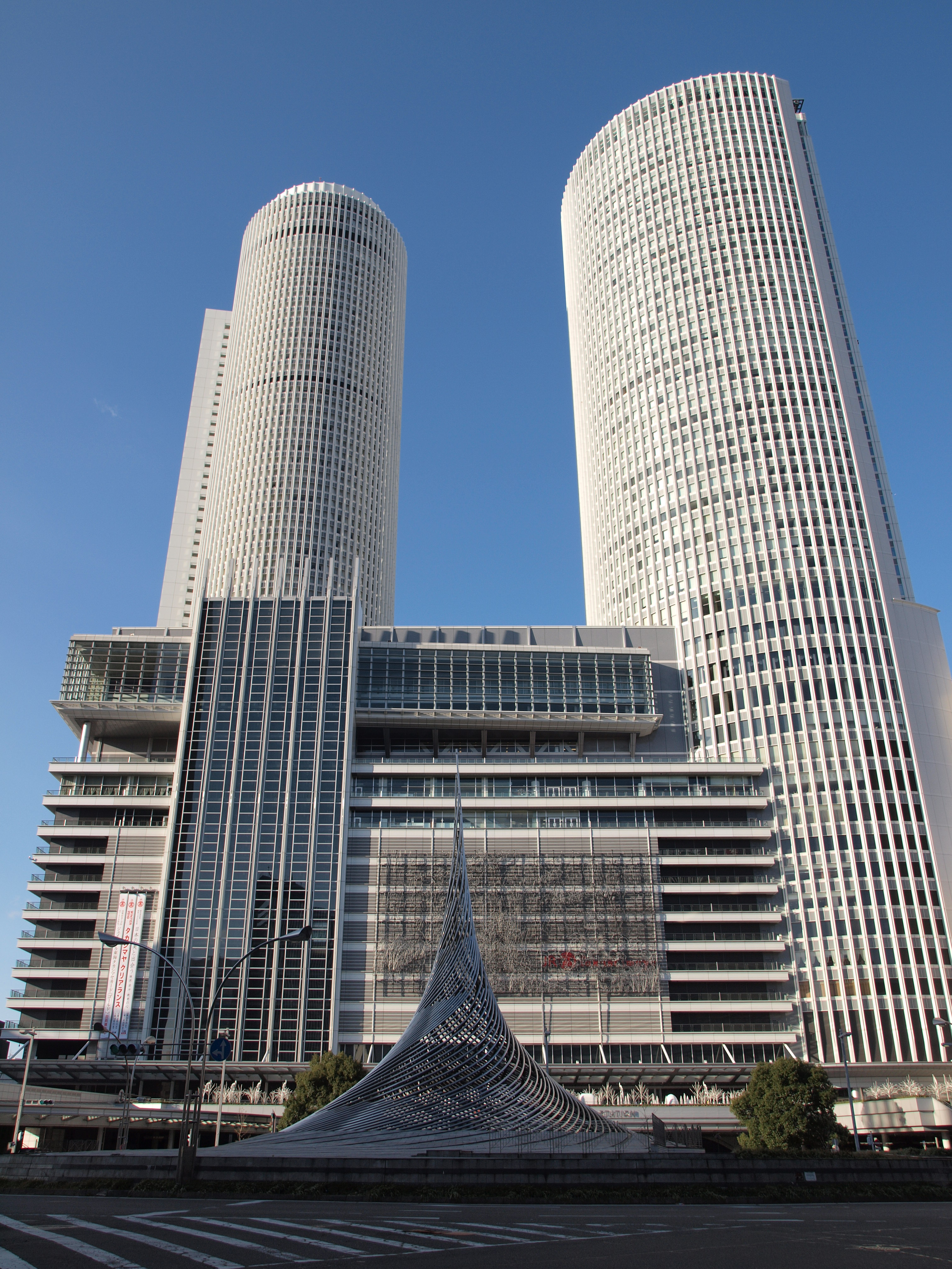 Nagoya Station Building (JR Central Towers) in Nagoya, Japan